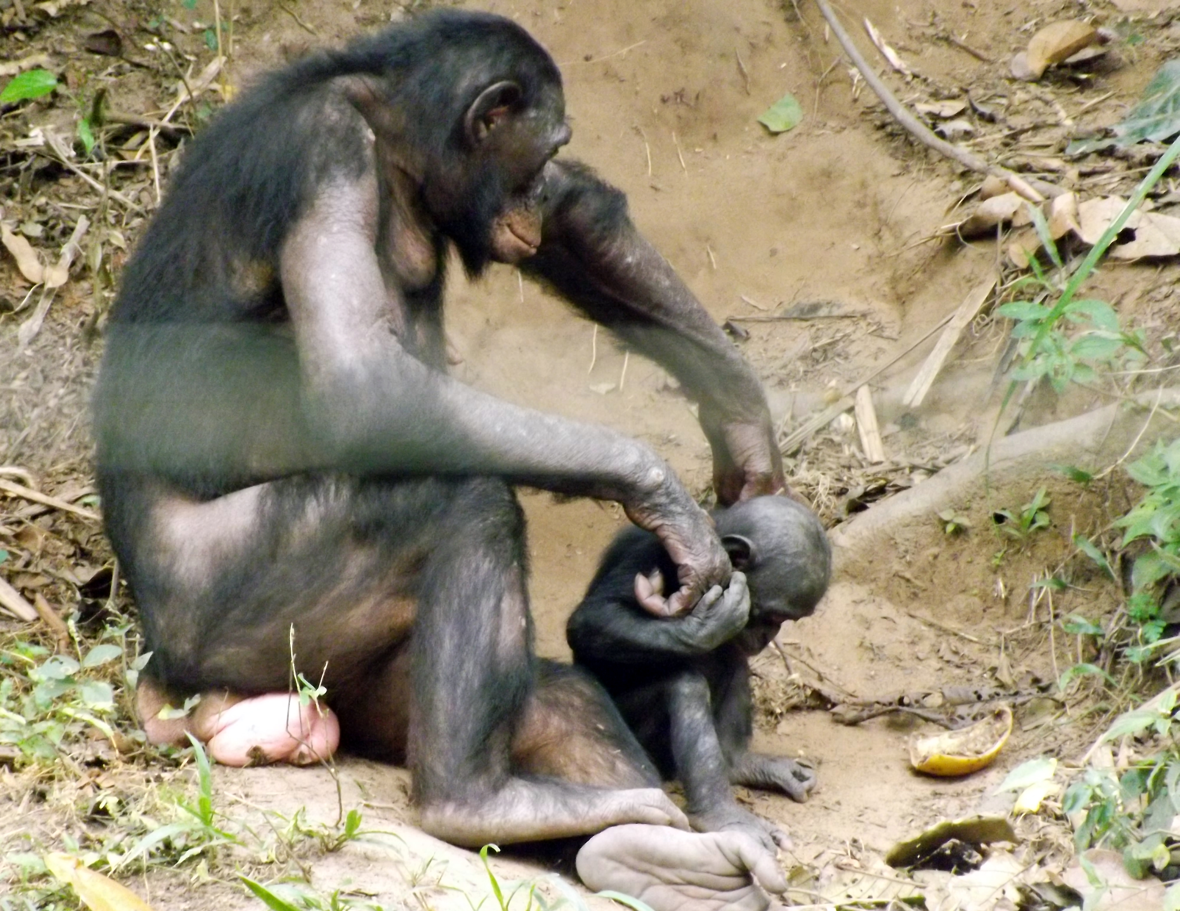 A bonobo mother and infant at Lola Ya Bonobo sanctuary in Kinshasa, Democratic Republic of the Congo.